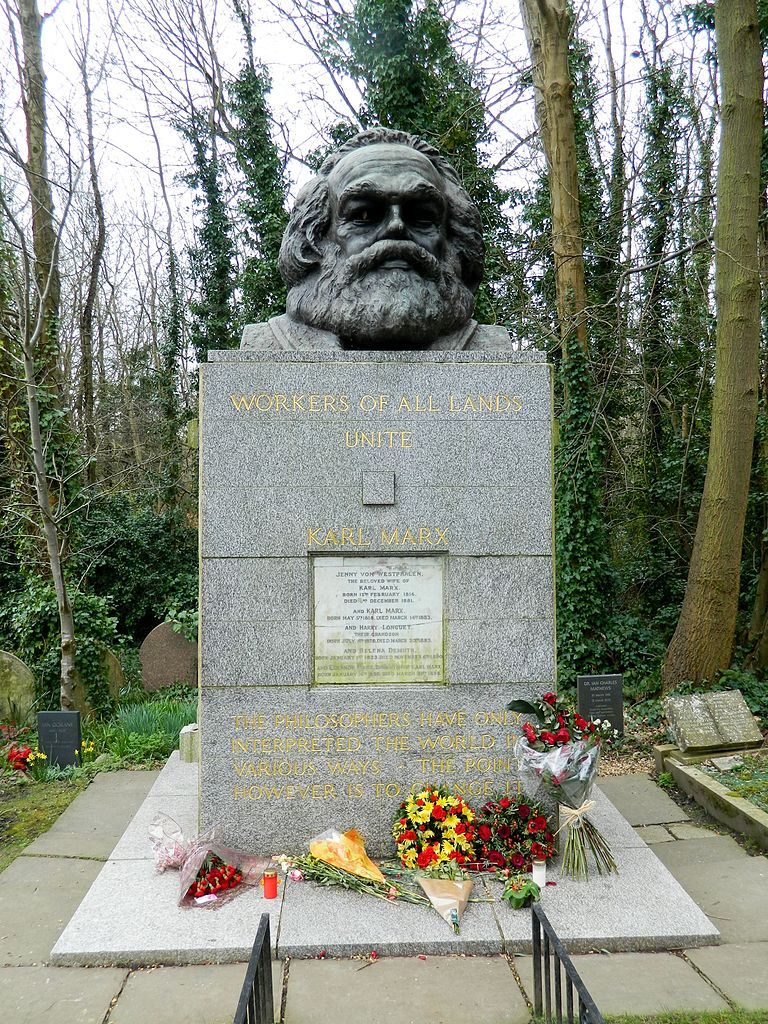 Grave of Karl Marx at the Highgate Cemetery in London. 2016